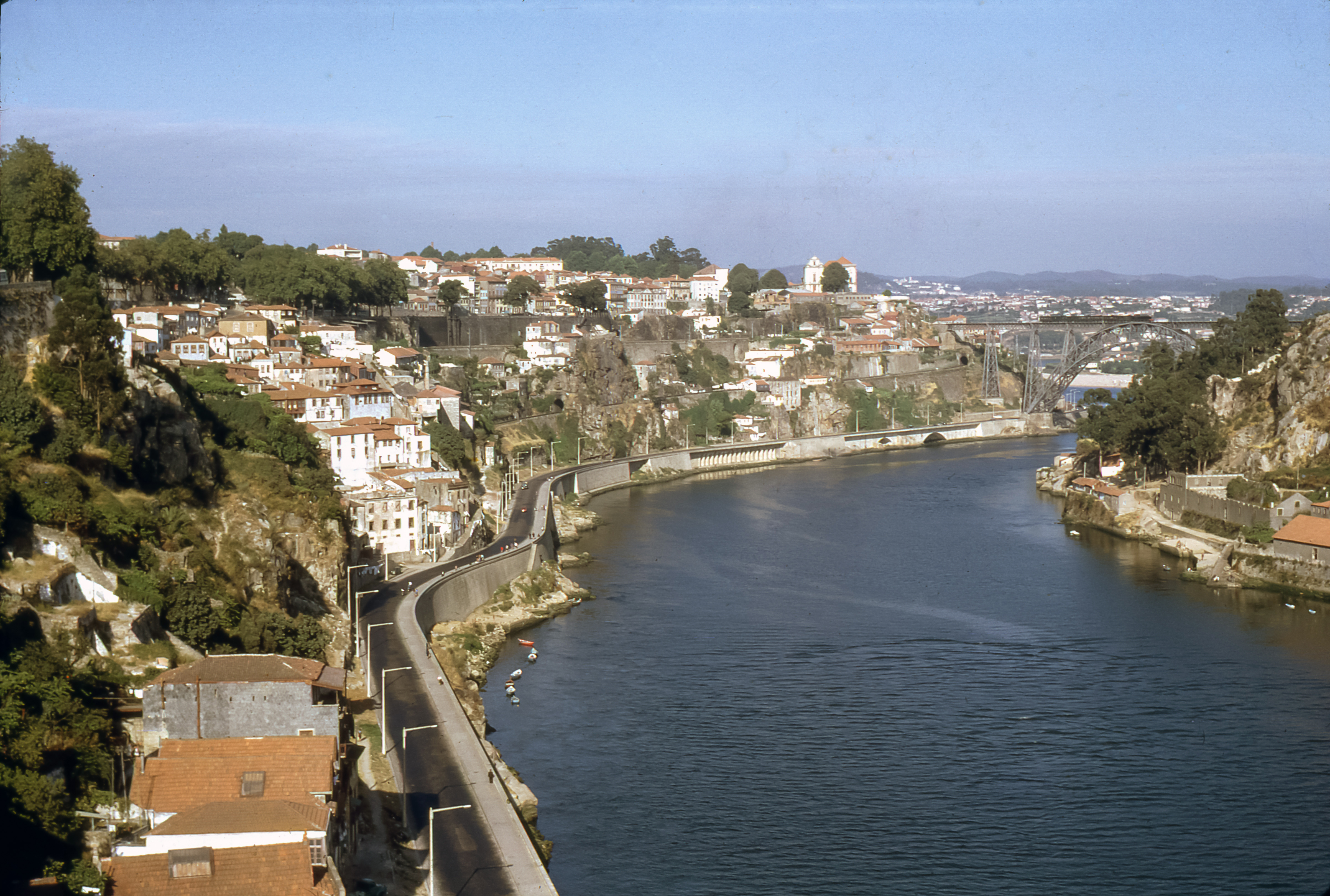 The Douro river and the Maria Pia bridge or Eiffel bridge.